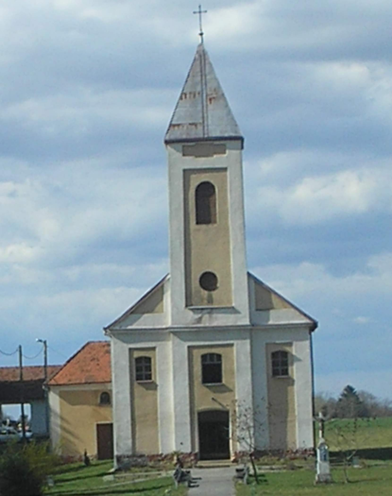 The church of Saint Bartolomew in Dezanovac, CroatiaHrvatski: Crkva sv. Bartola, Dežanovac, Bjelovarsko-bilogorska županija